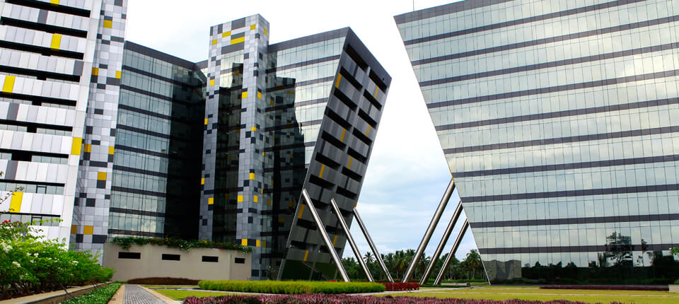 Ganga and Yamuna Building in Technopark, Trivandum, India.